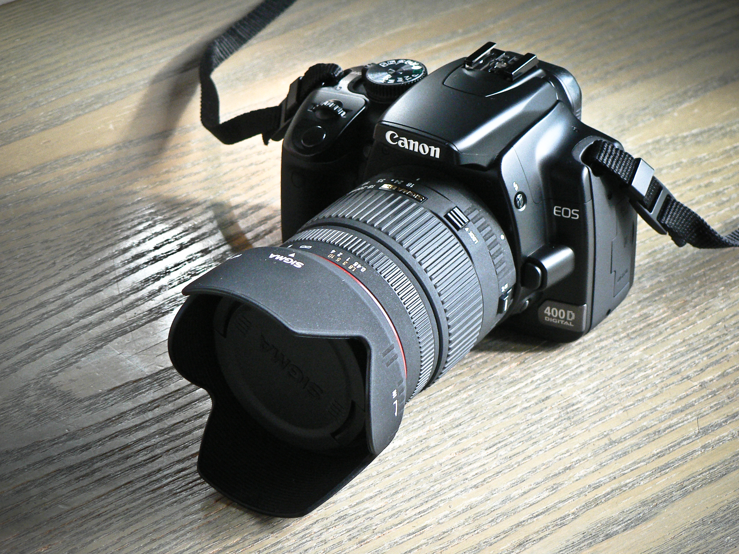 The Canon EOS 400D attached with sigma's 18-200mm lens. Shot with Panasonic FZ5. Image is Non-Photoshopped or edited in anyway.